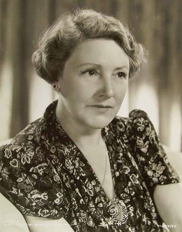 english actress Fay Holden - publicity still (cropped : see source)